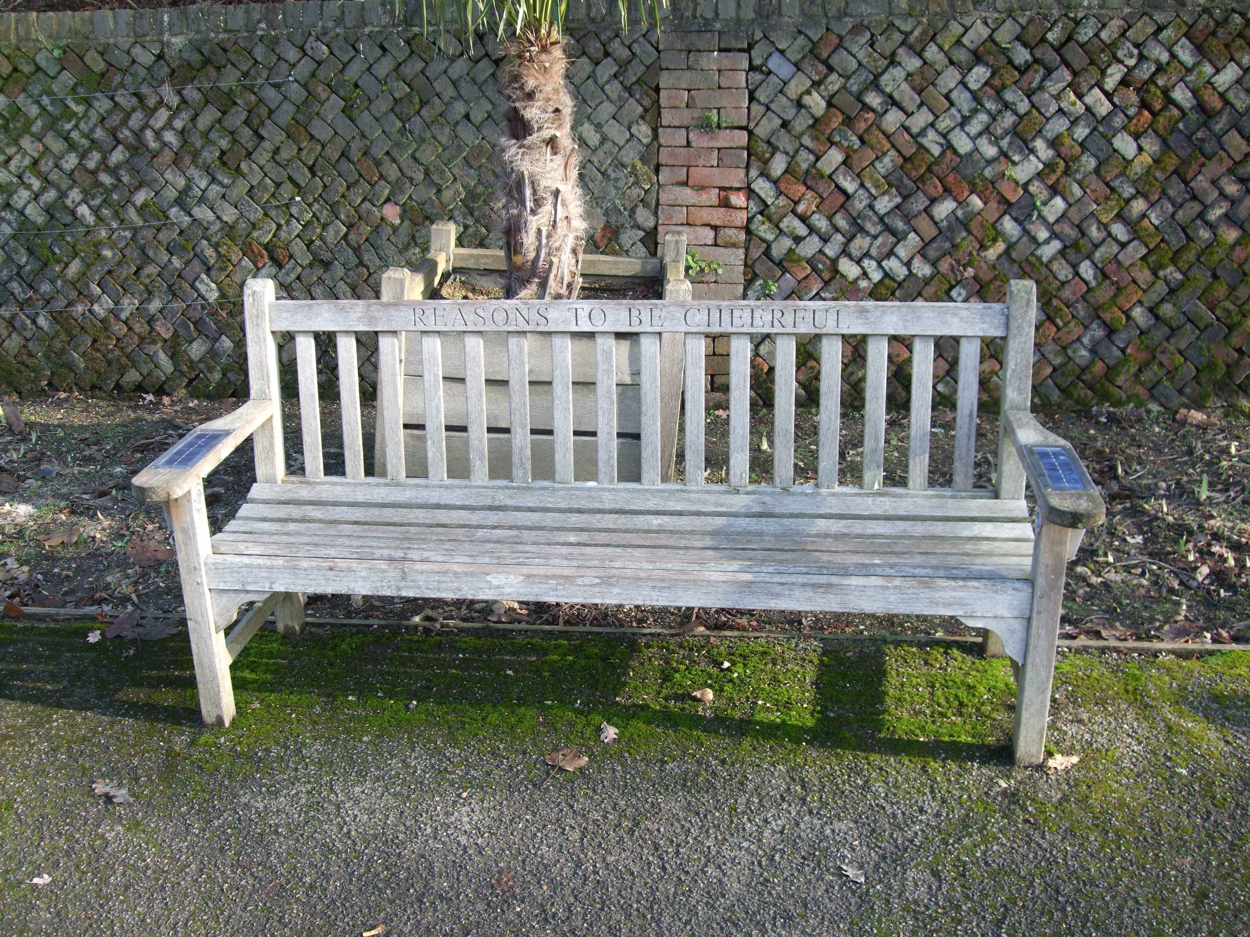 In 2002, this musical seat was placed in a favoured viewing spot of Dury's, Poet's Corner, near Pembroke Lodge, within Richmond Park. The solar powered seat was intended to allow visitors to plug in and listen to eight of his songs as well as an interview, but has been subjected to repeated vandalism. The inscription reads; REASONS TO BE CHEERFUL.